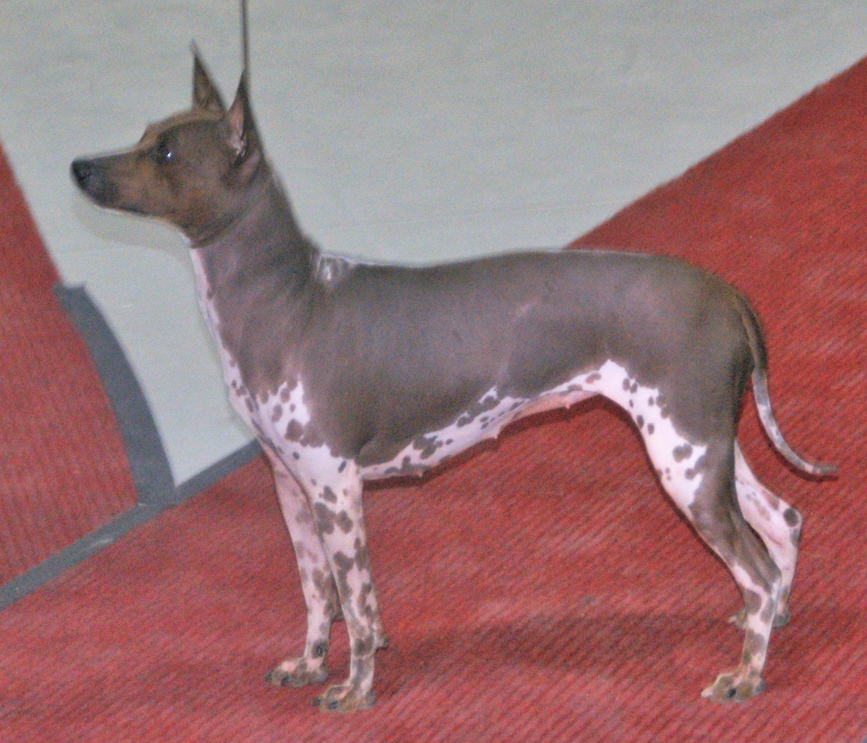 American Hairless Terrier, tricolour female